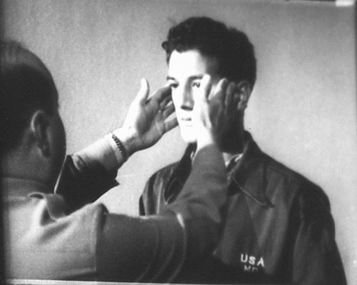 Screenshot of the film Let There Be Light.